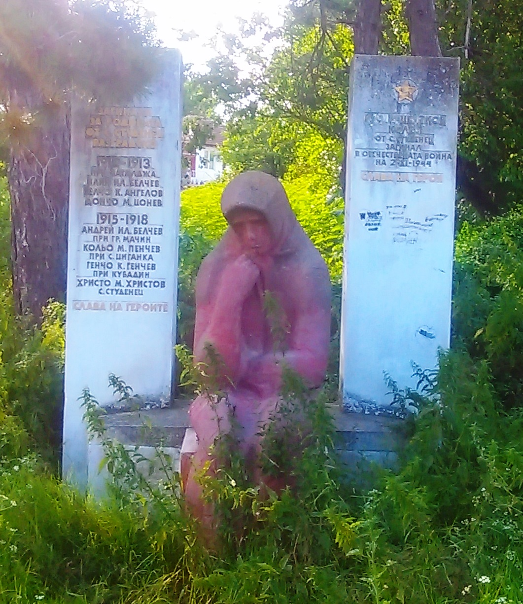 War memorial in Studenetz, Razgrad province, Bulgaria